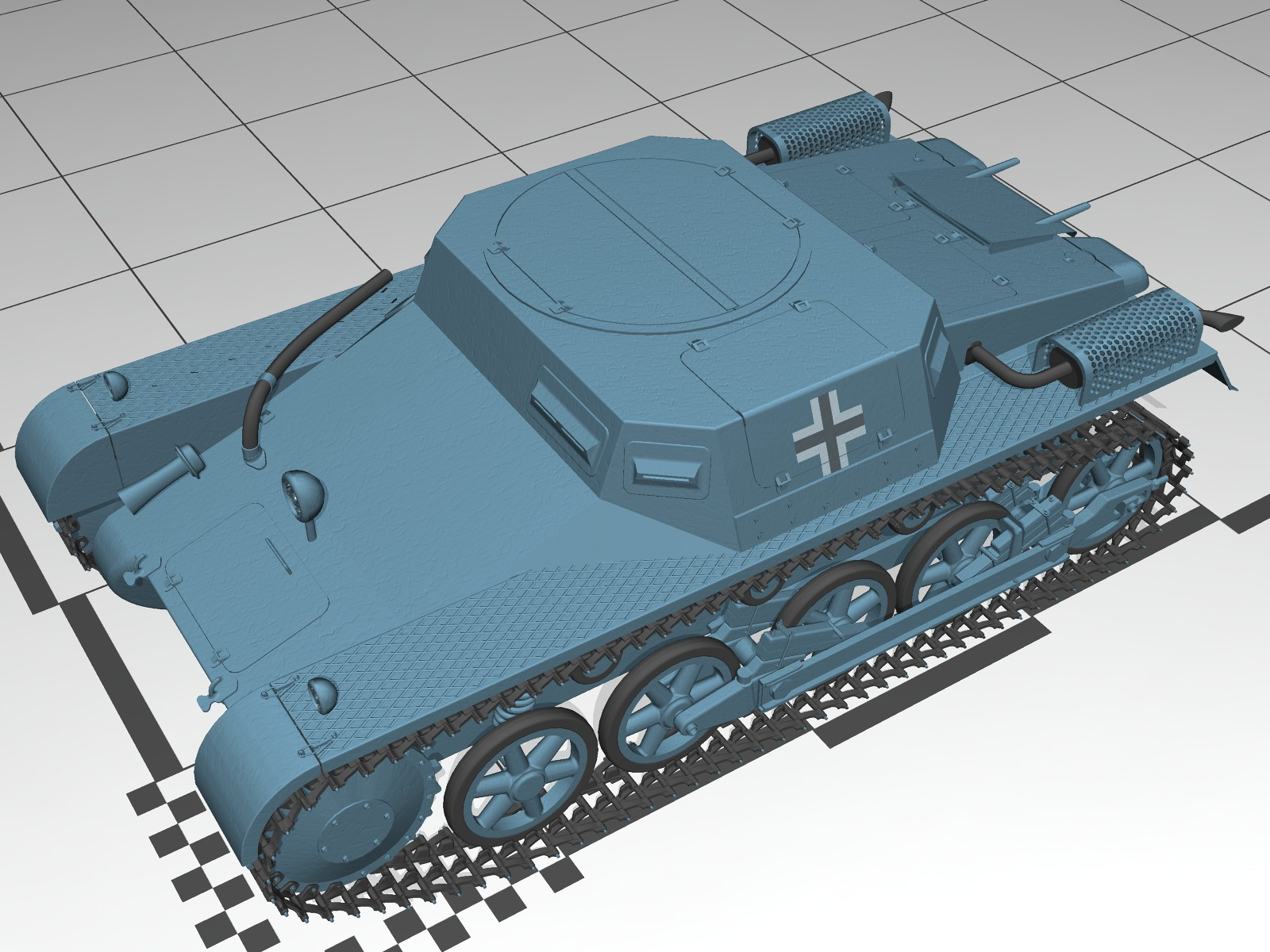 Munitionsschlepper IA (3d model, iso view)